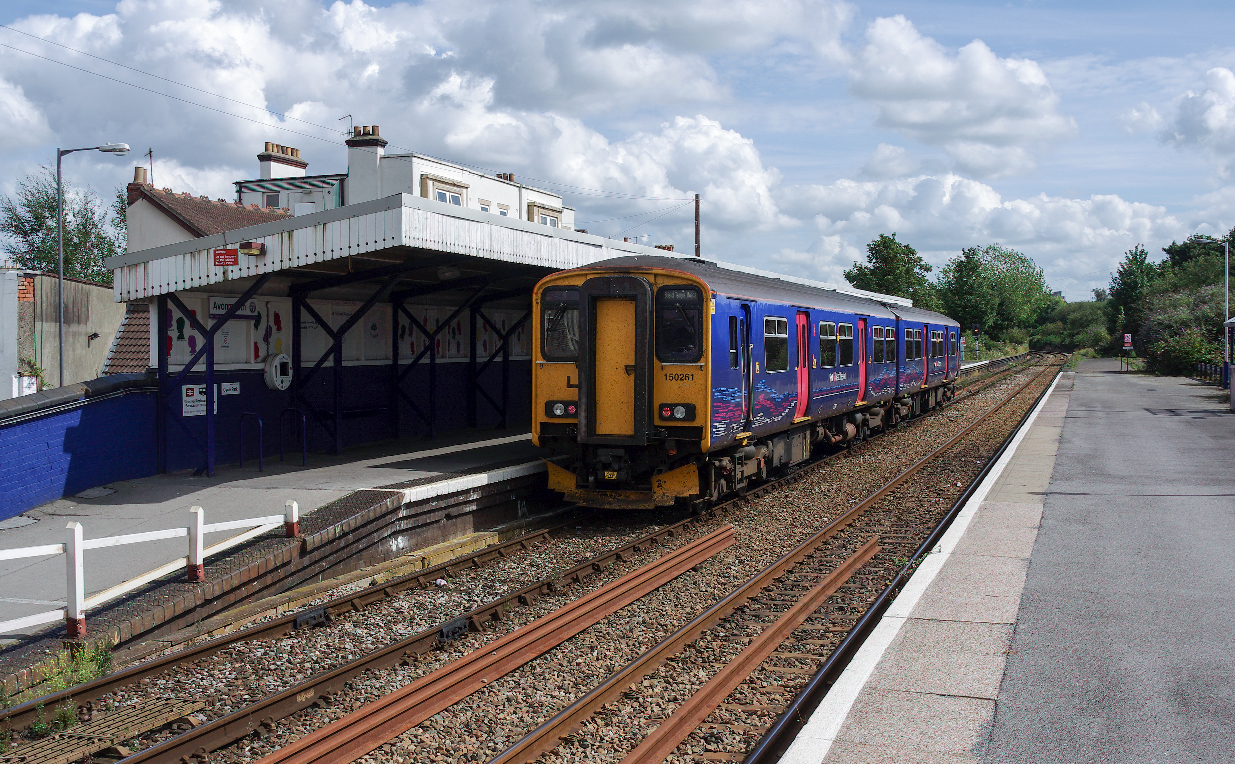 First Great Western class 150 "Sprinter" DMU 150261 stands at Avonmouth with a terminating service from Bristol Temple Meads.